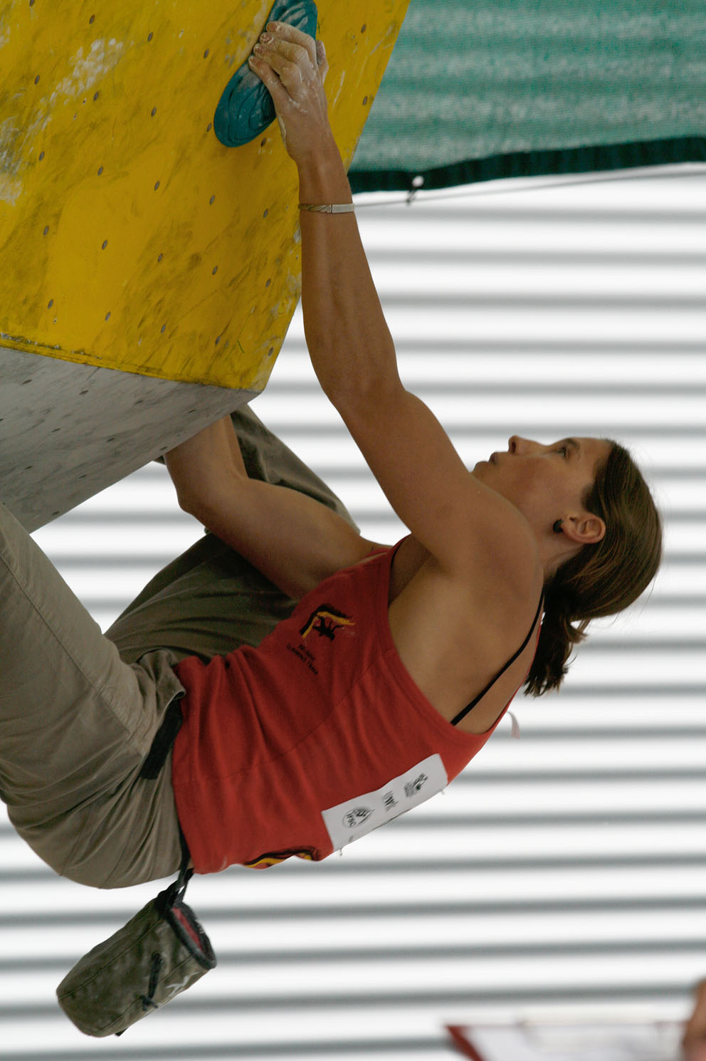 Chloé Graftiaux during qualifications at the IFSC Boulder Worldcup Vienna 2010.